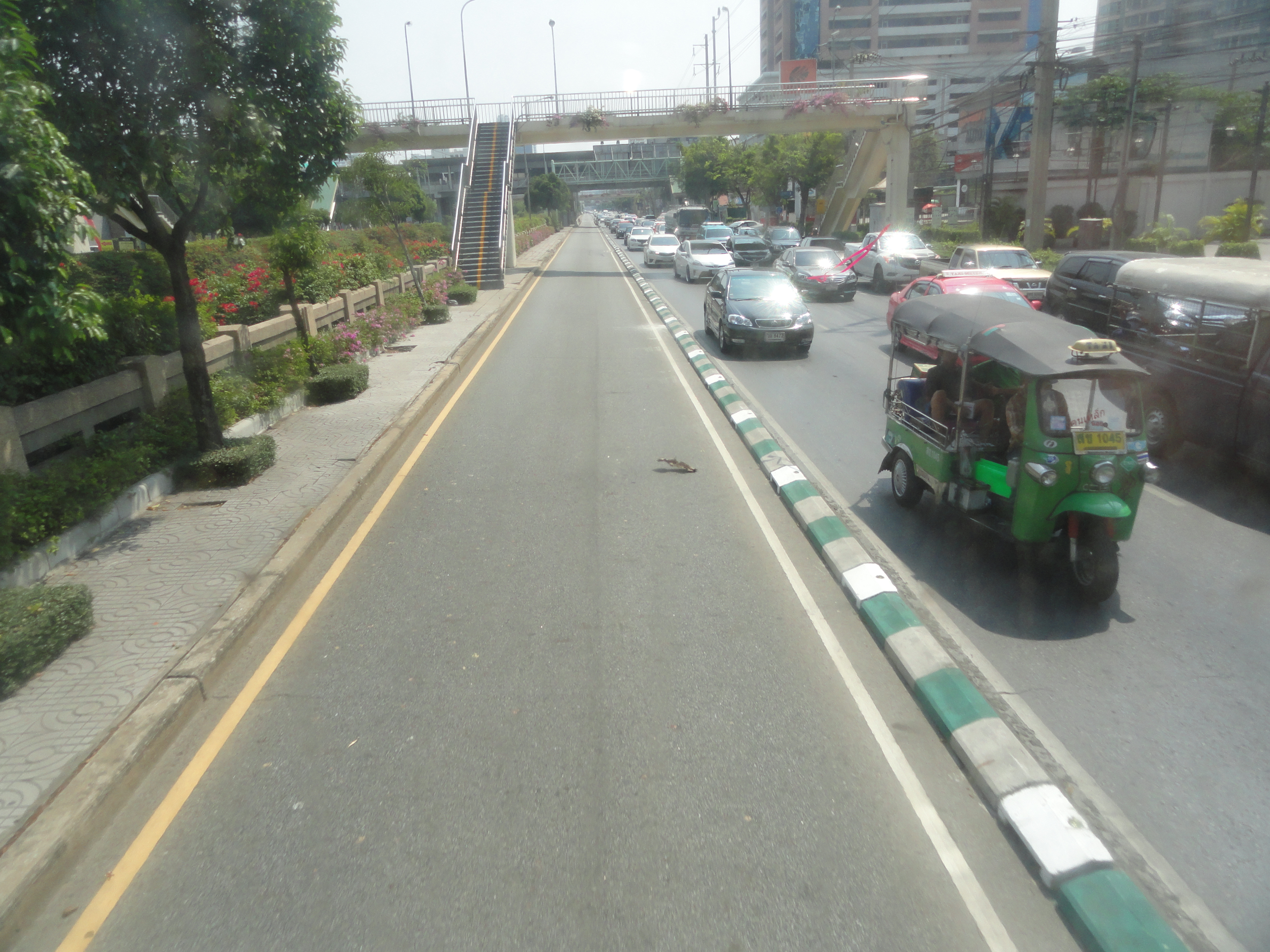 Busway separation in Bangkok